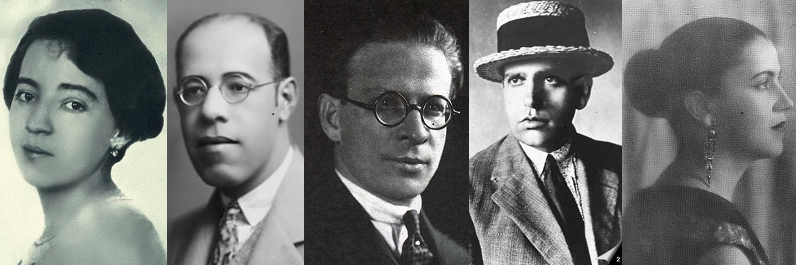 A collage created by me using the following images found in the Wikimedia Commons: (Left to right) File:Anita_Malfatti_jovem_(1912).jpg File:Mario_de_andrade_1928b.png File:Menotti_del_Picchia.jpg File:Oswald_de_andrade_1920.jpg File:Tarsila_do_Amaral,_ca._1925.jpg